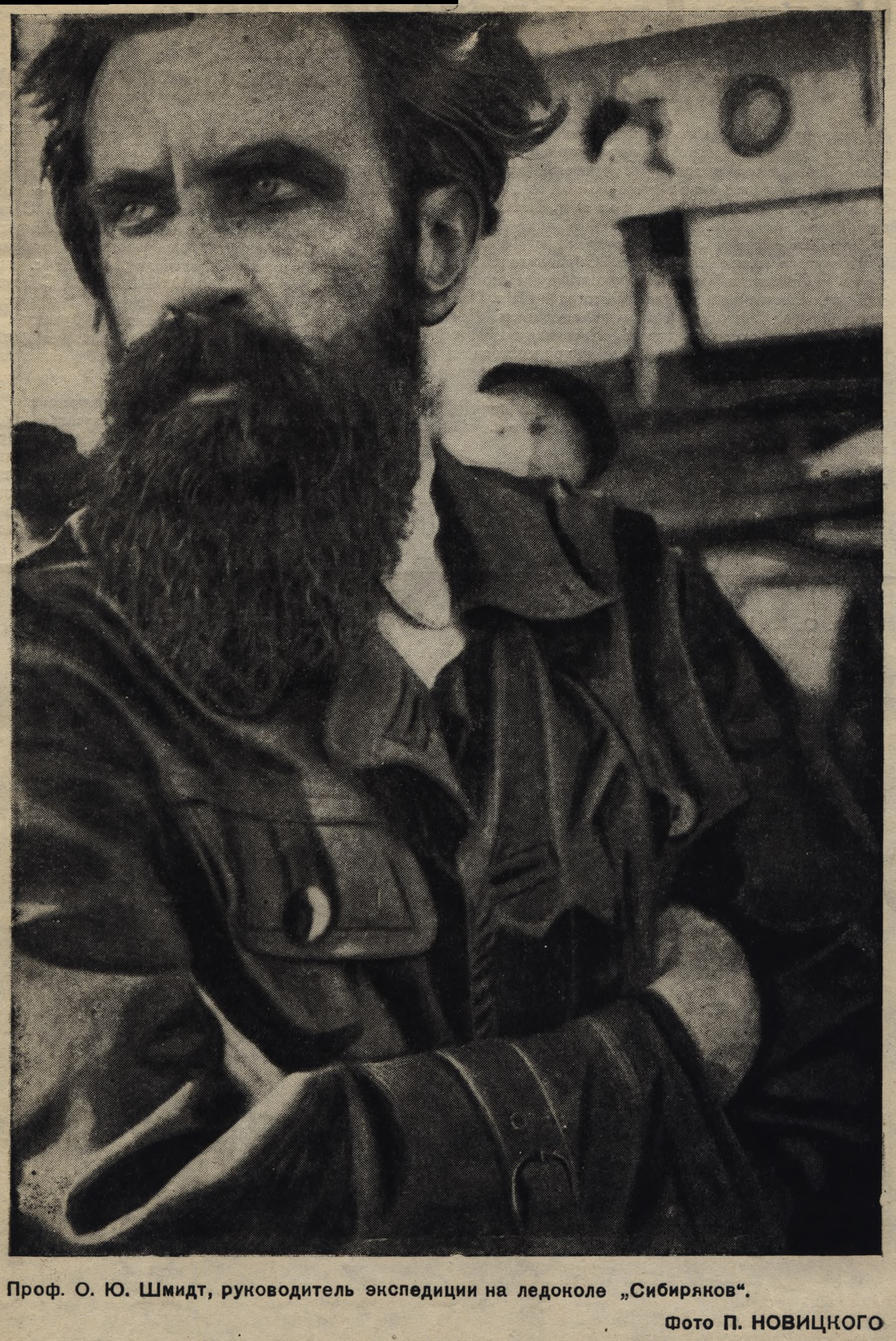 Otto Schmidt. Photo by P. Novitsky. 1932